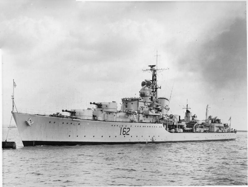 British destroyer HMS JUTLAND at a buoy.